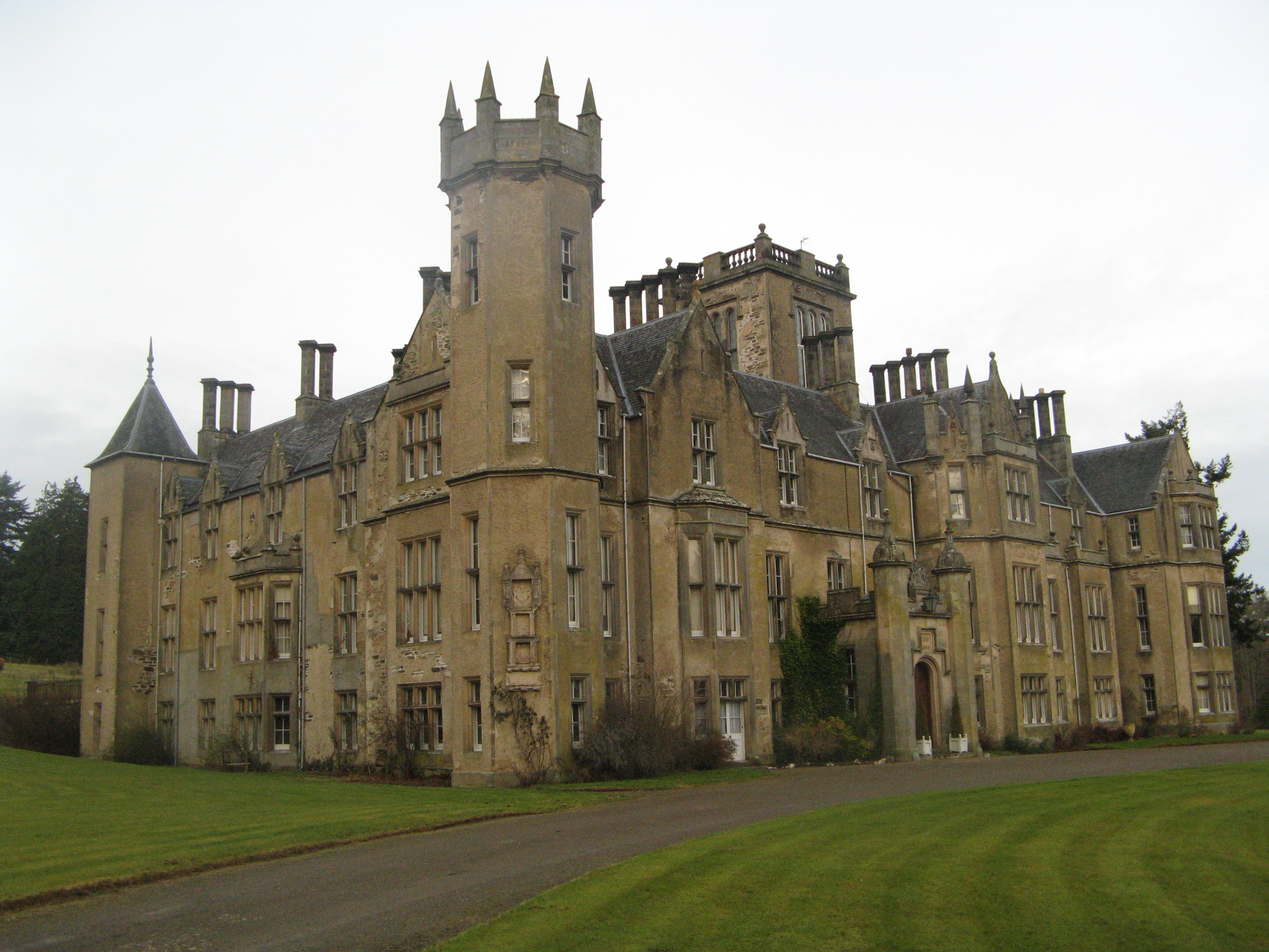 Listed building